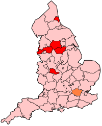 Metropolitan counties in red; non-metropolitan counties in pink; London in orange. Originally uploaded to Wikipedia (log) in November 2007 by Dpaajones (talk).